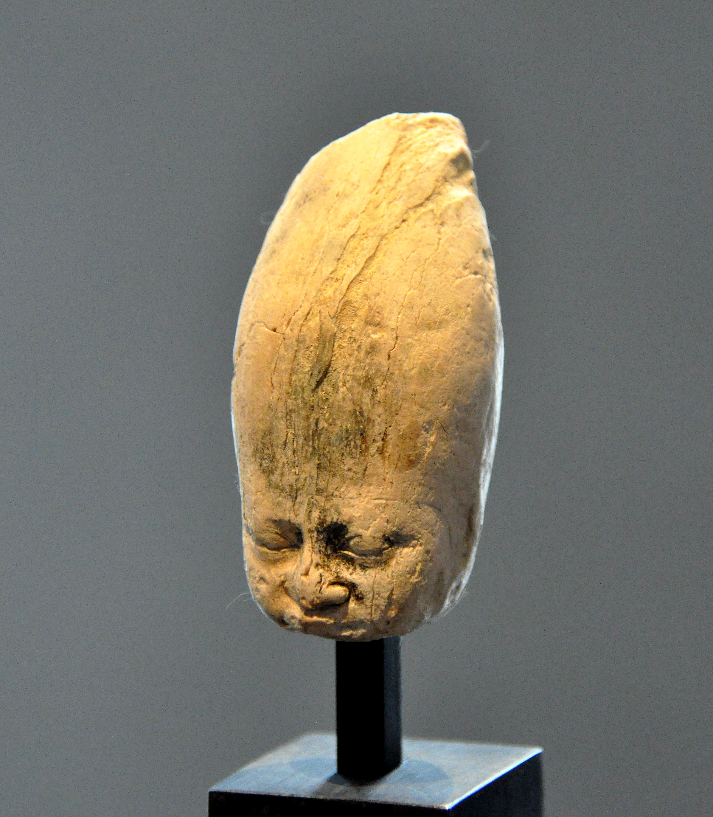 Head of the Egyptian pharaoh Khufu (Cheops). This head was part of a limestone statue. Old Kingdom, 4th Dynasty, c. 2400 BC. From Egypt. State Museum of Egyptian Art, Munich. Germany.